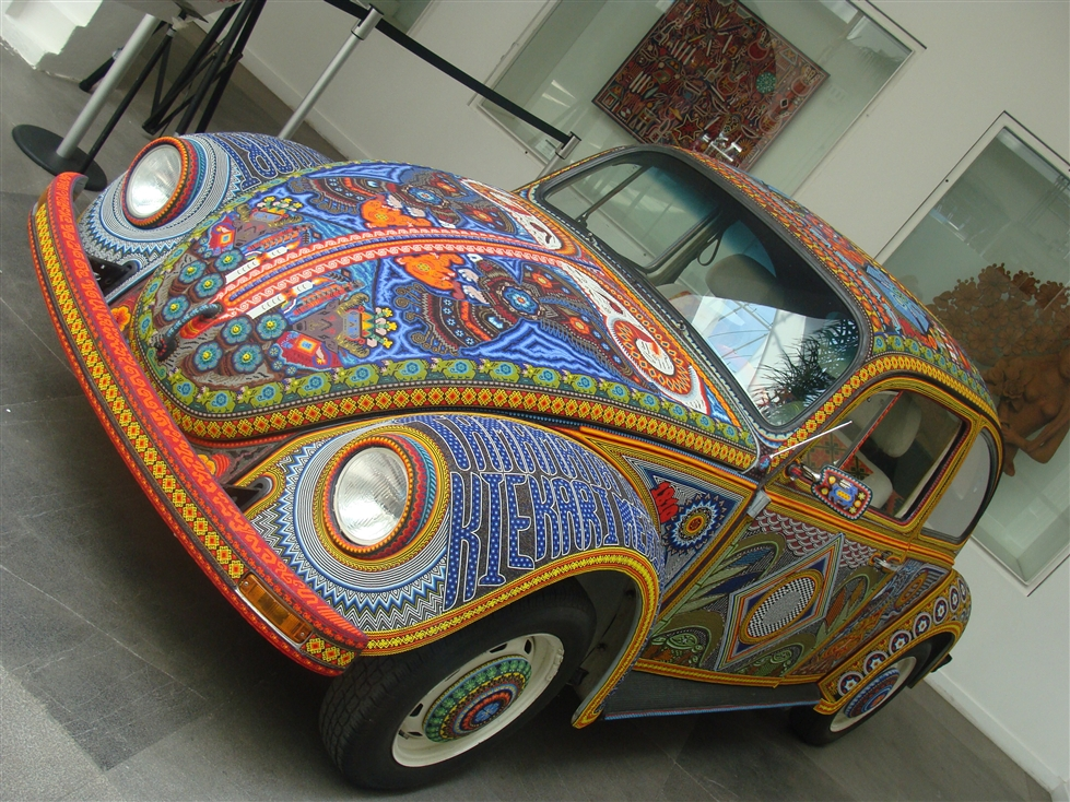 Volkswagen Beetle covered in multicolored beads in Huichol style. Called the Vochol